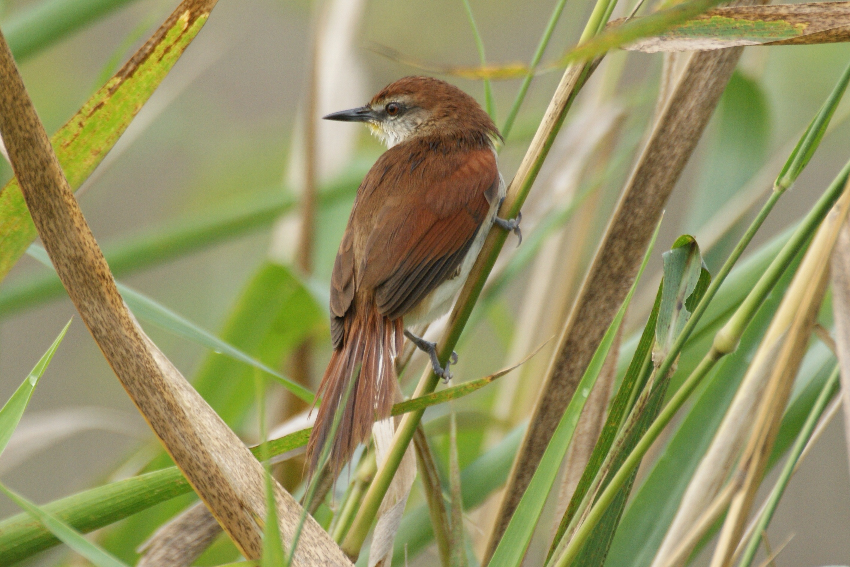 A Yellow-chinned Spinetail in Morretes, Paraná, Brazil.